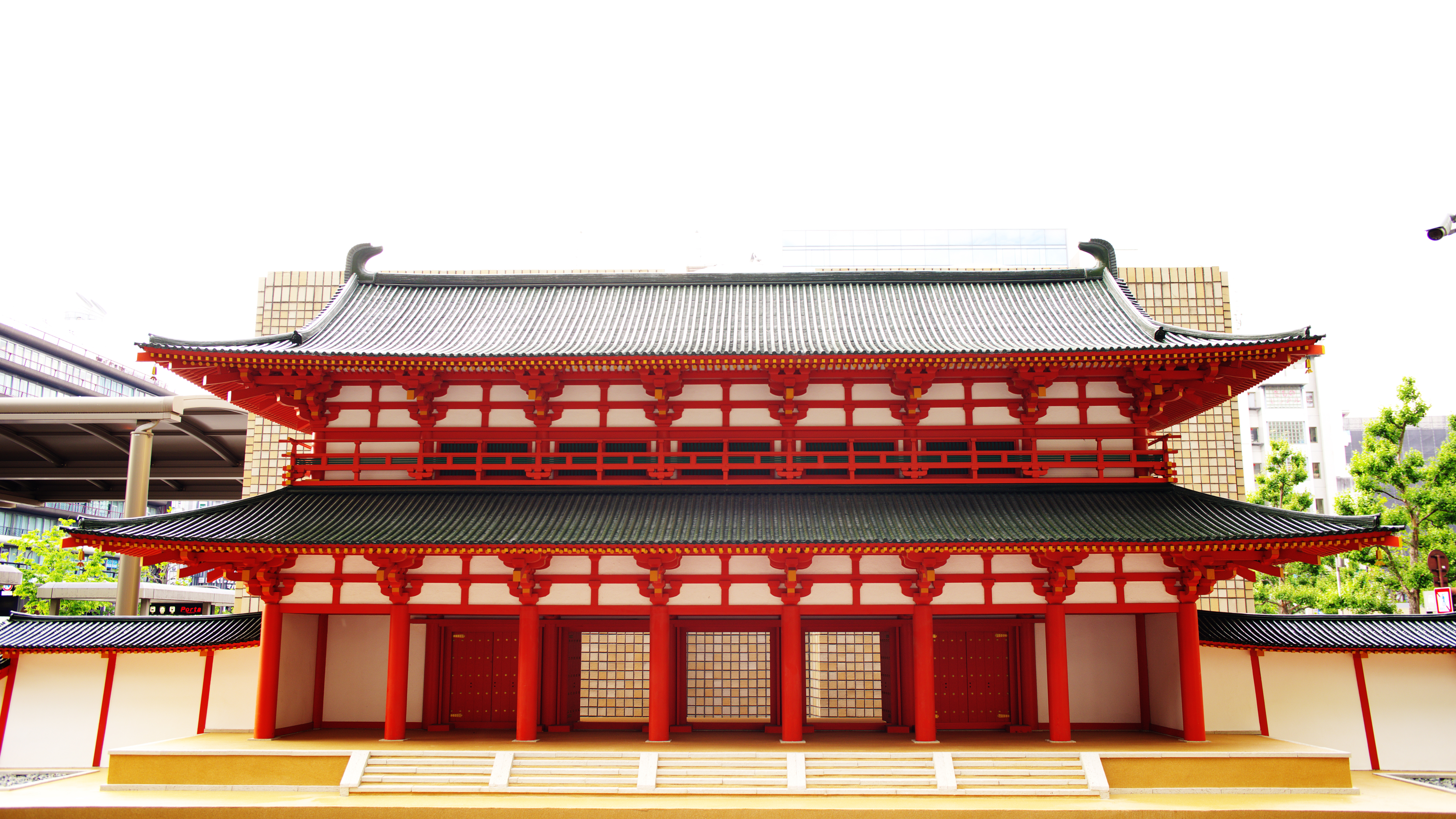 Model of Rajōmon gate at Kyoto station